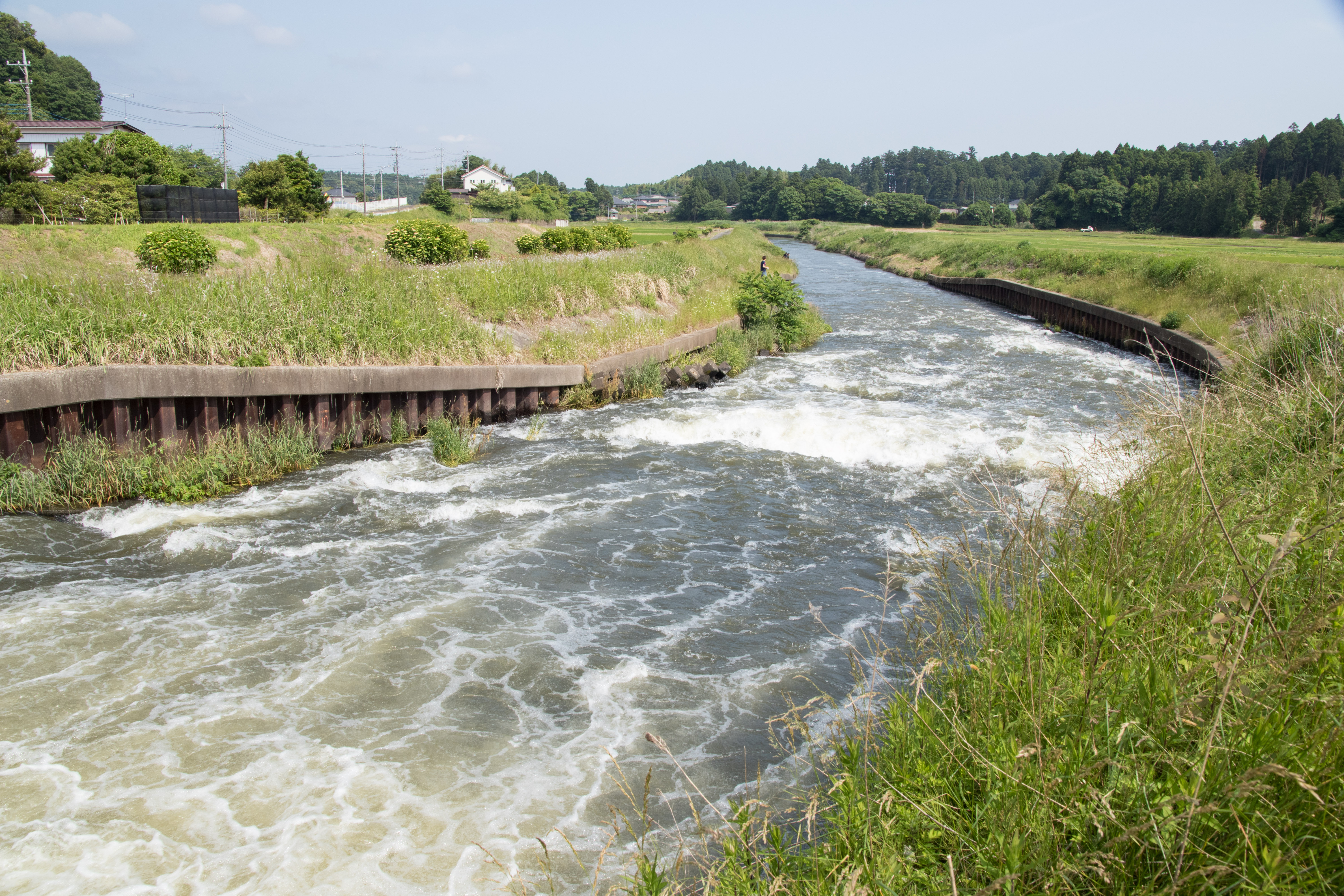 Kuriyama River, Katori City, Chiba Pref., Japan